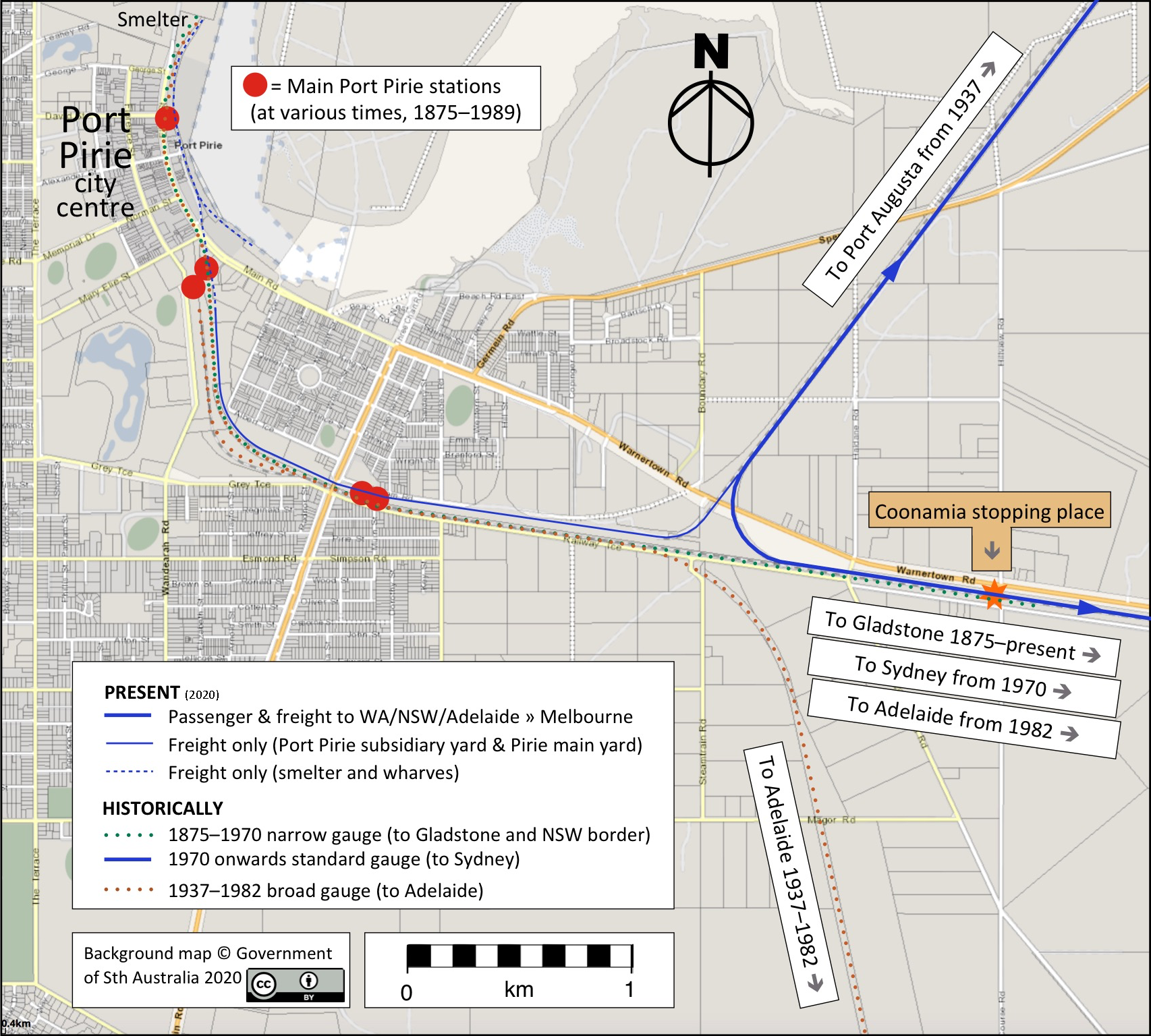 The map has been prepared to supplement the Wikipedia article on Coonamia railway station, illustrating the evolution of railway gauges in the city of Port Pirie and the resulting use of the "station" at Coonamia.